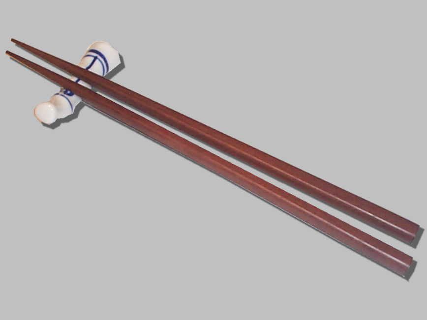 Japanese chop sticks (hashi with hashioki)